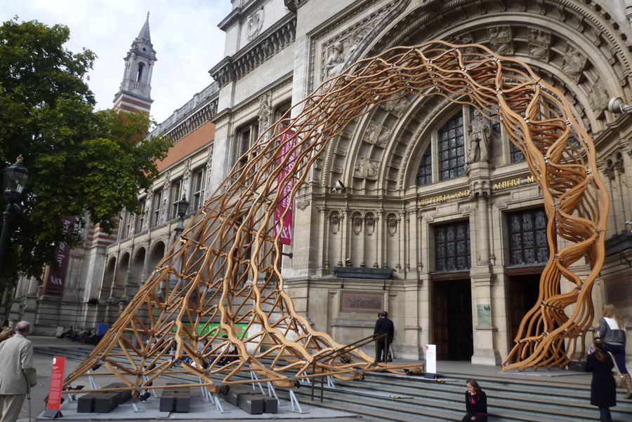 Wood architectural installation designed by Amanda Levete for the London Design Festival (2011). Located outside the main entrance of the Victoria & Albert Museum, Kensington, London.